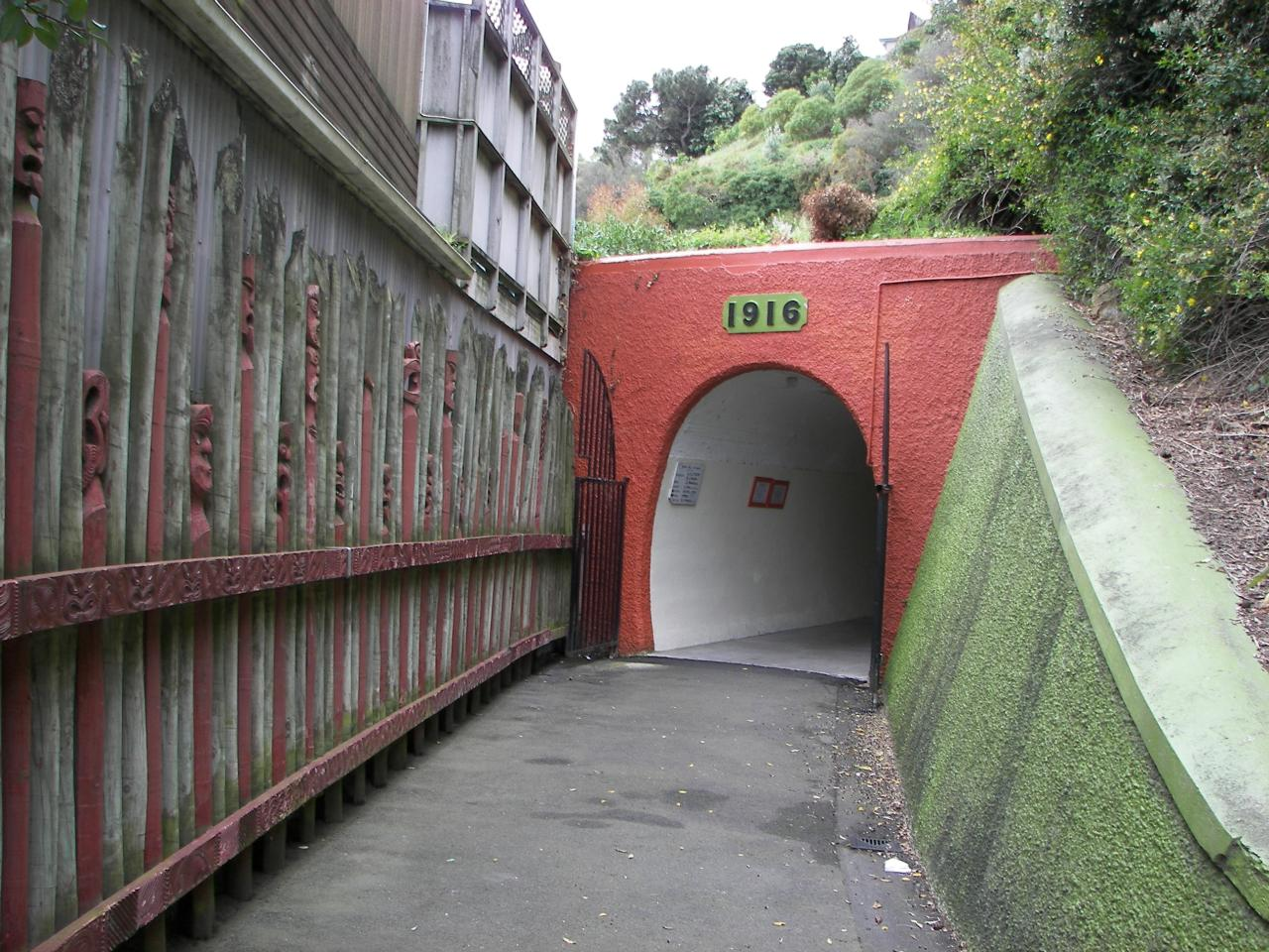 Whanganui, Durie Hill lift.